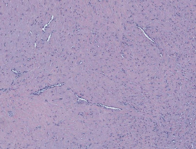 Photomicrograph of fibroma of tendon sheath. Bland spindle cells in a dense fibrous background with cleft-like vessels.